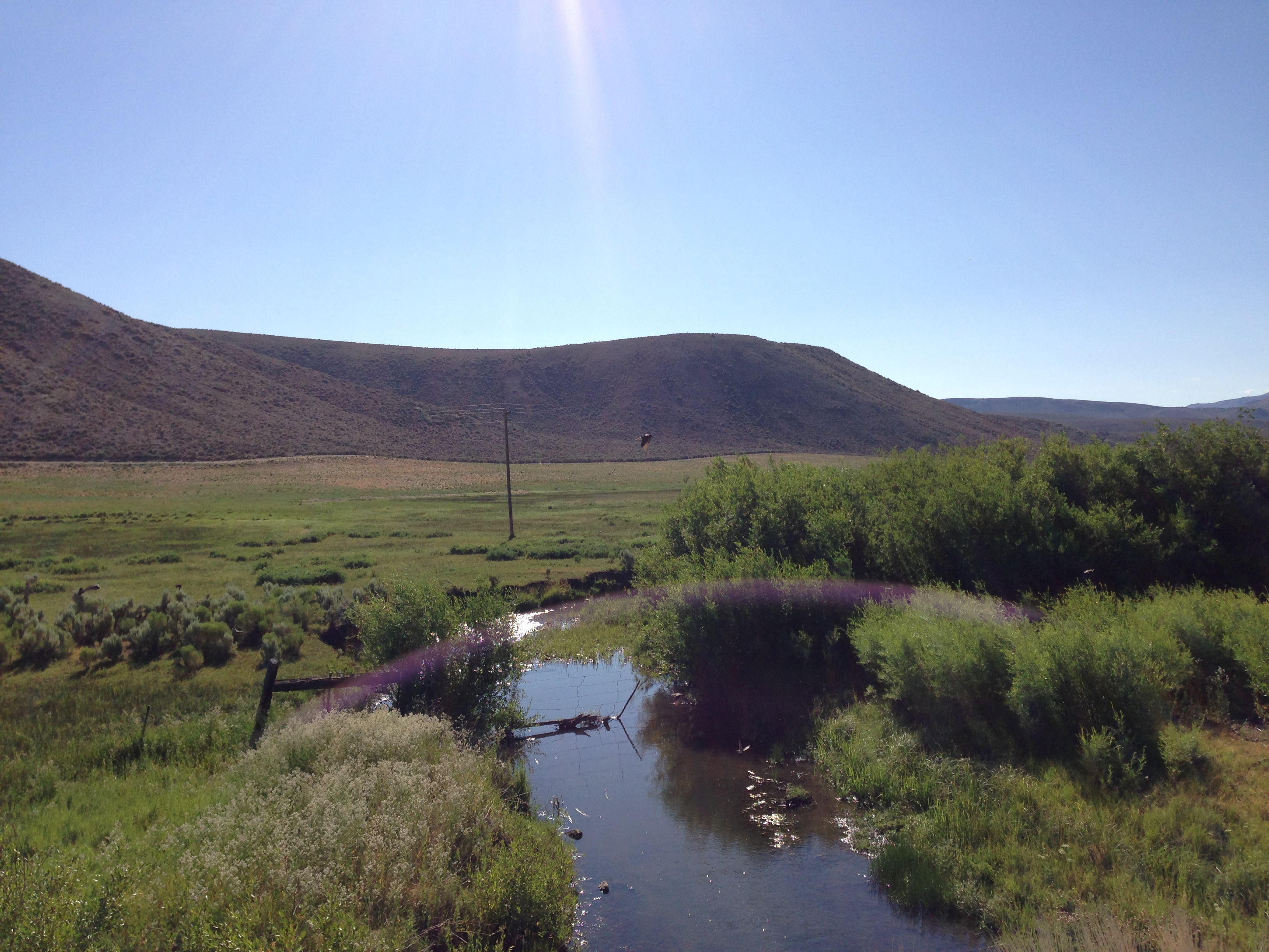 View downstream along the North Fork Humboldt River from Nevada State Route 225 (Mountain City Highway) near North Fork, Nevada